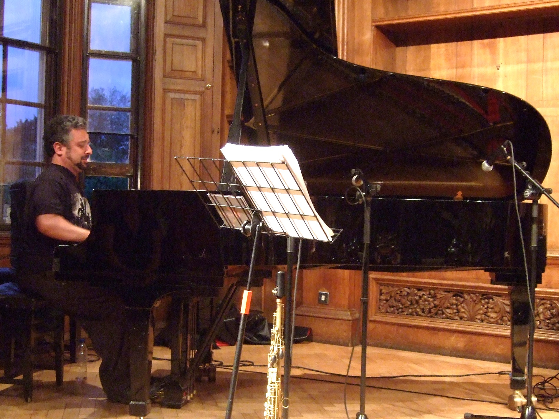 Jazz pianist Jonathan Gee performing with the Tony Kofi Quartet